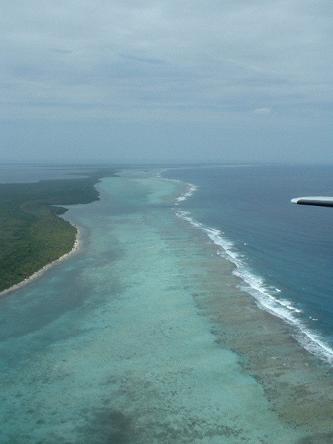 Hickatee Cottages, Punta Gorda, Toledo District, Belize